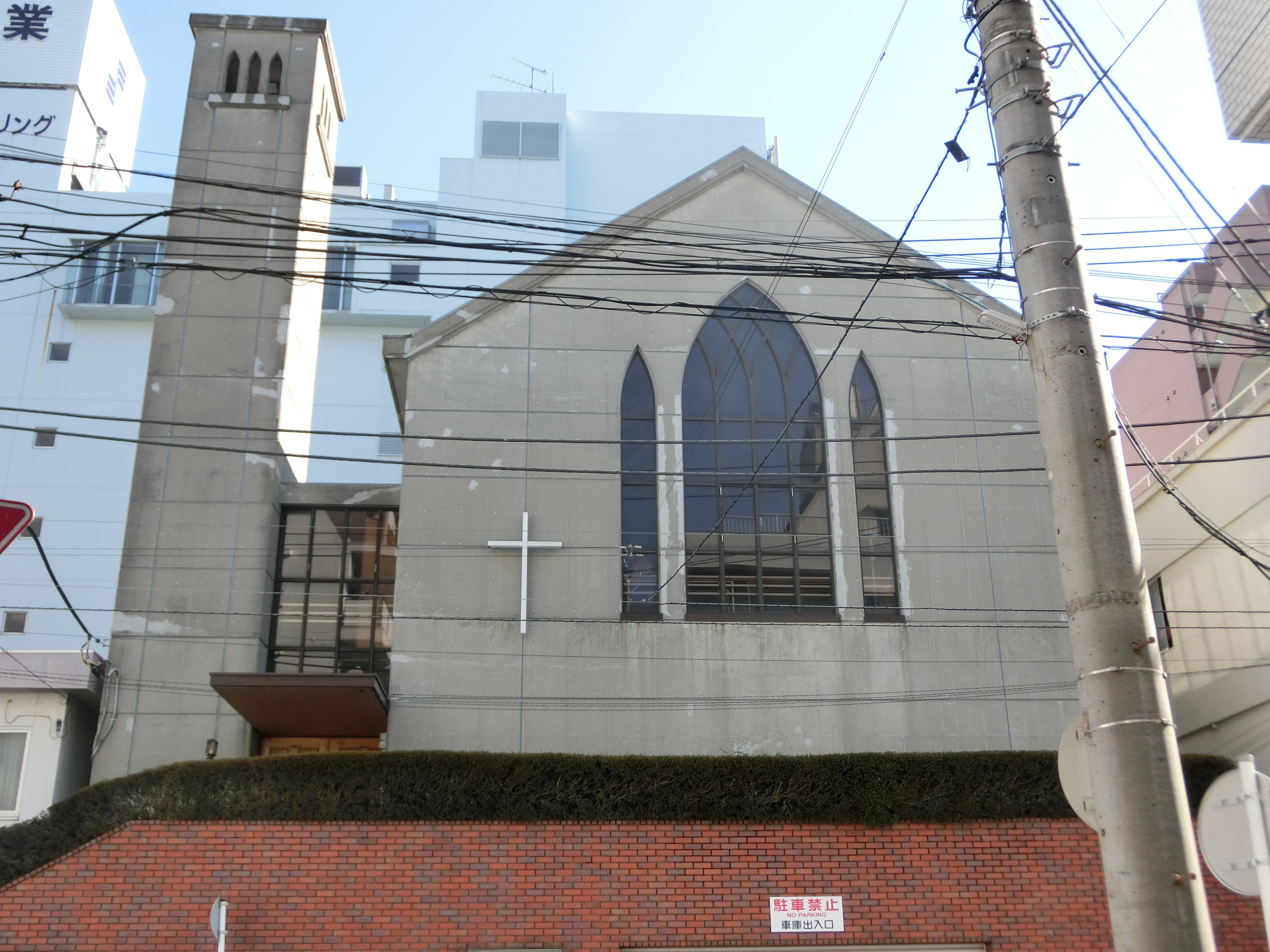 Japan Baptist Yokohama Church